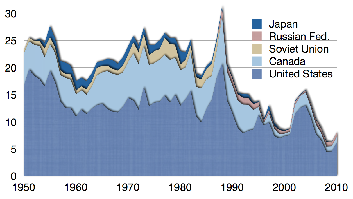 Wild capture of Chinook salmon, Oncorhynchus tshawytscha, in thousand tonnes from 1980 to 2010 as reported by the FAO. Based on data sourced from the FishStat database